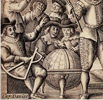 John Davis shown in a detail from Englands Famous Discoverers. Cap Davies. Sr Walter Rawleigh, Sr. Hugh Willoughby, Cap: Smith